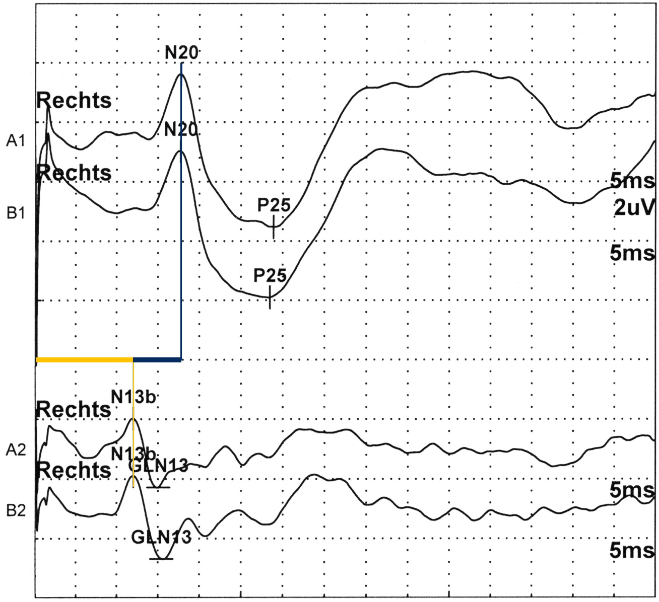 Somatosensory evoked potential of the right Median Nerve